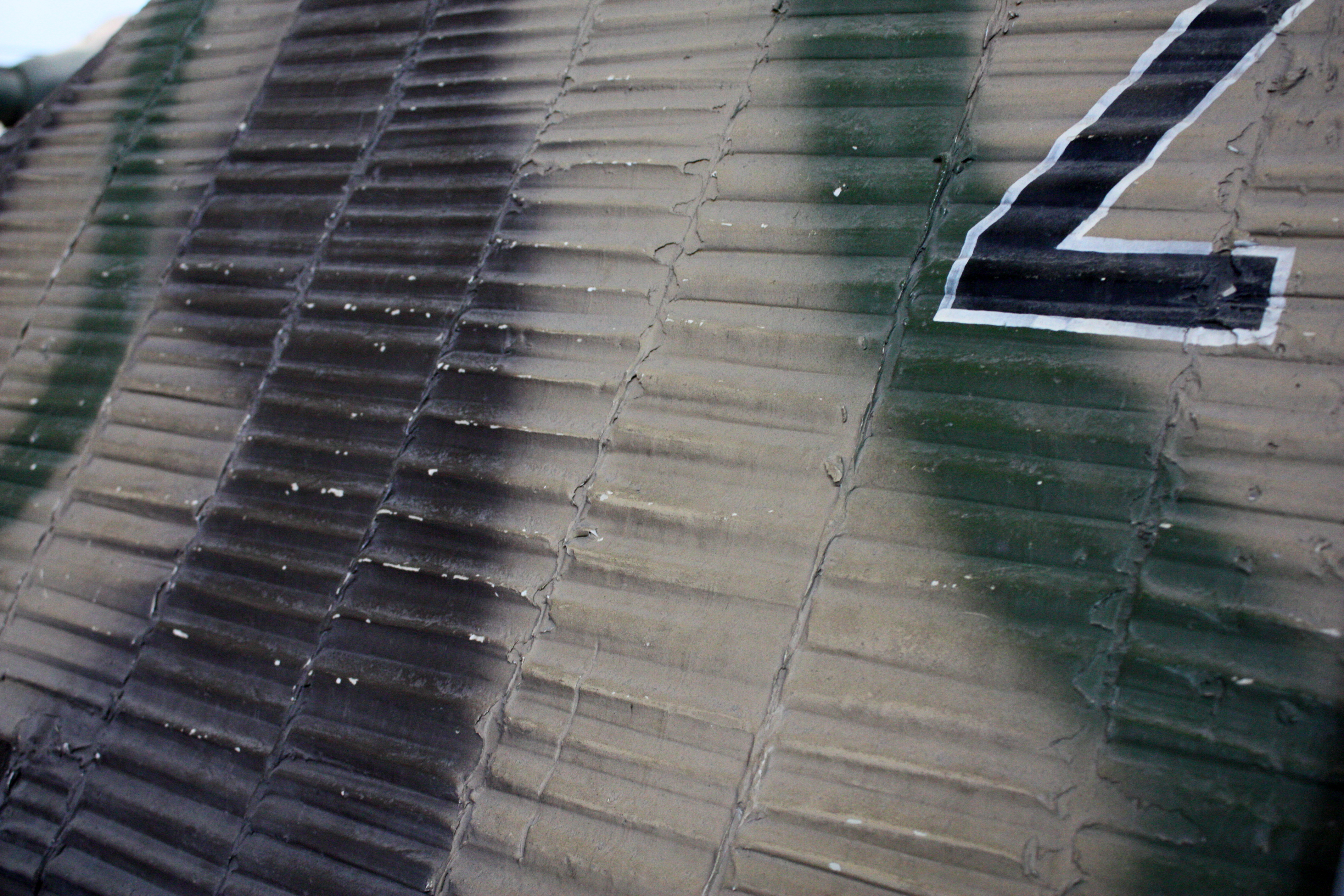 German Tank Museum